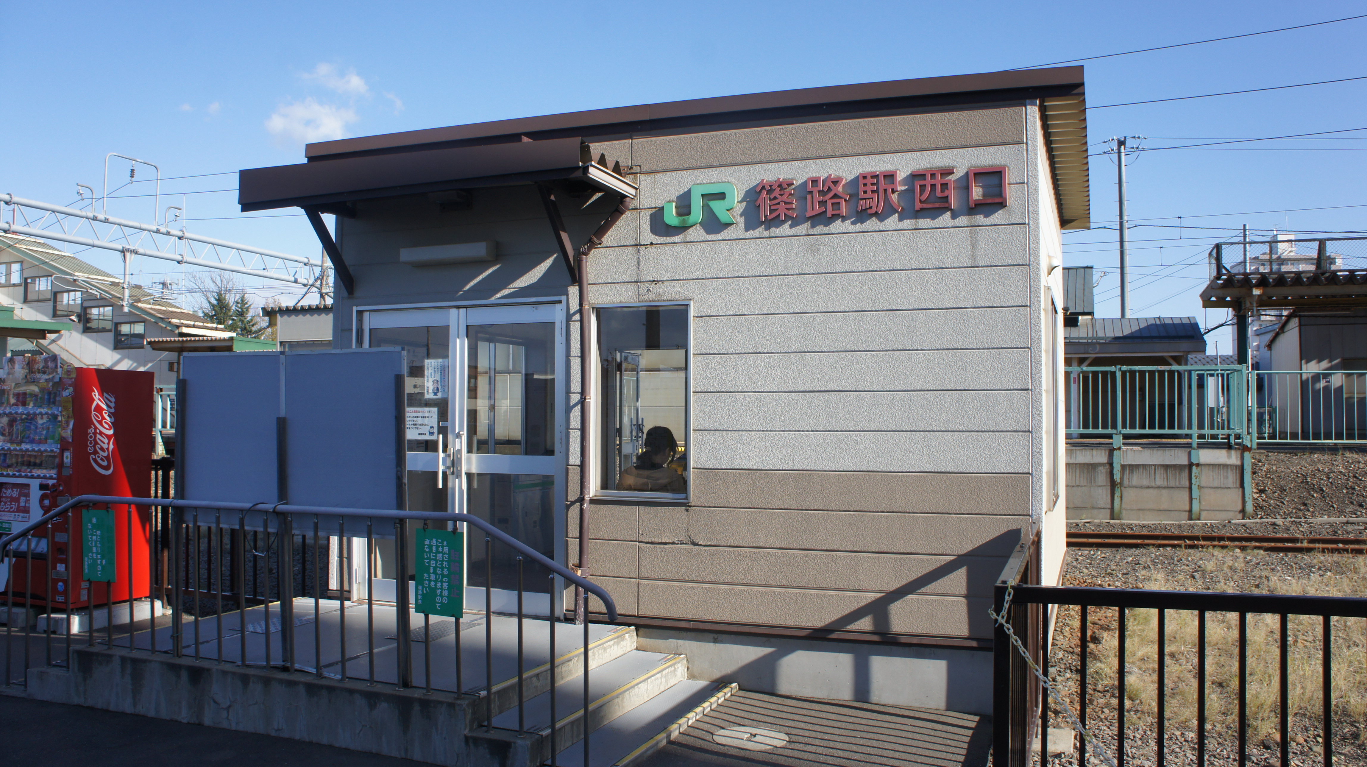 West Exit of JR Sassho-Line Shinoro Station Sony NEX-3